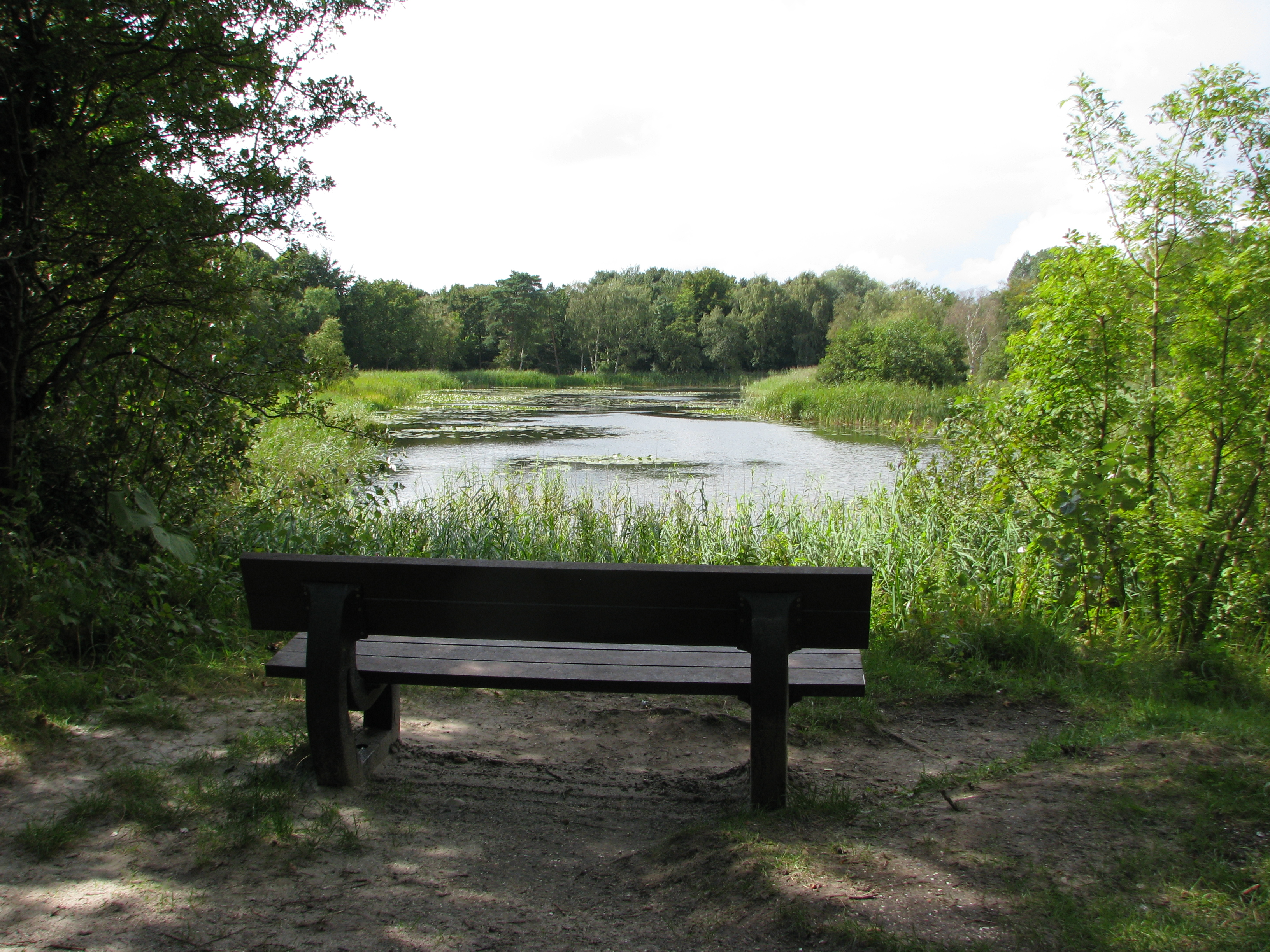 View over Tenellaplas, Oostvoorne, NL